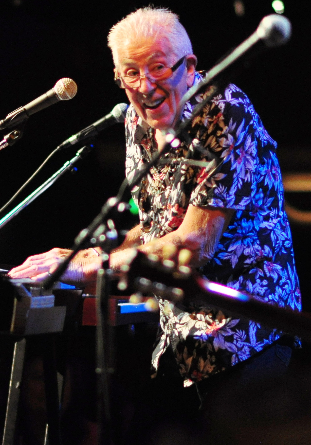 John Mayall performing at Jazz Alley, Seattle, Washington, U.S. June 14, 2019.